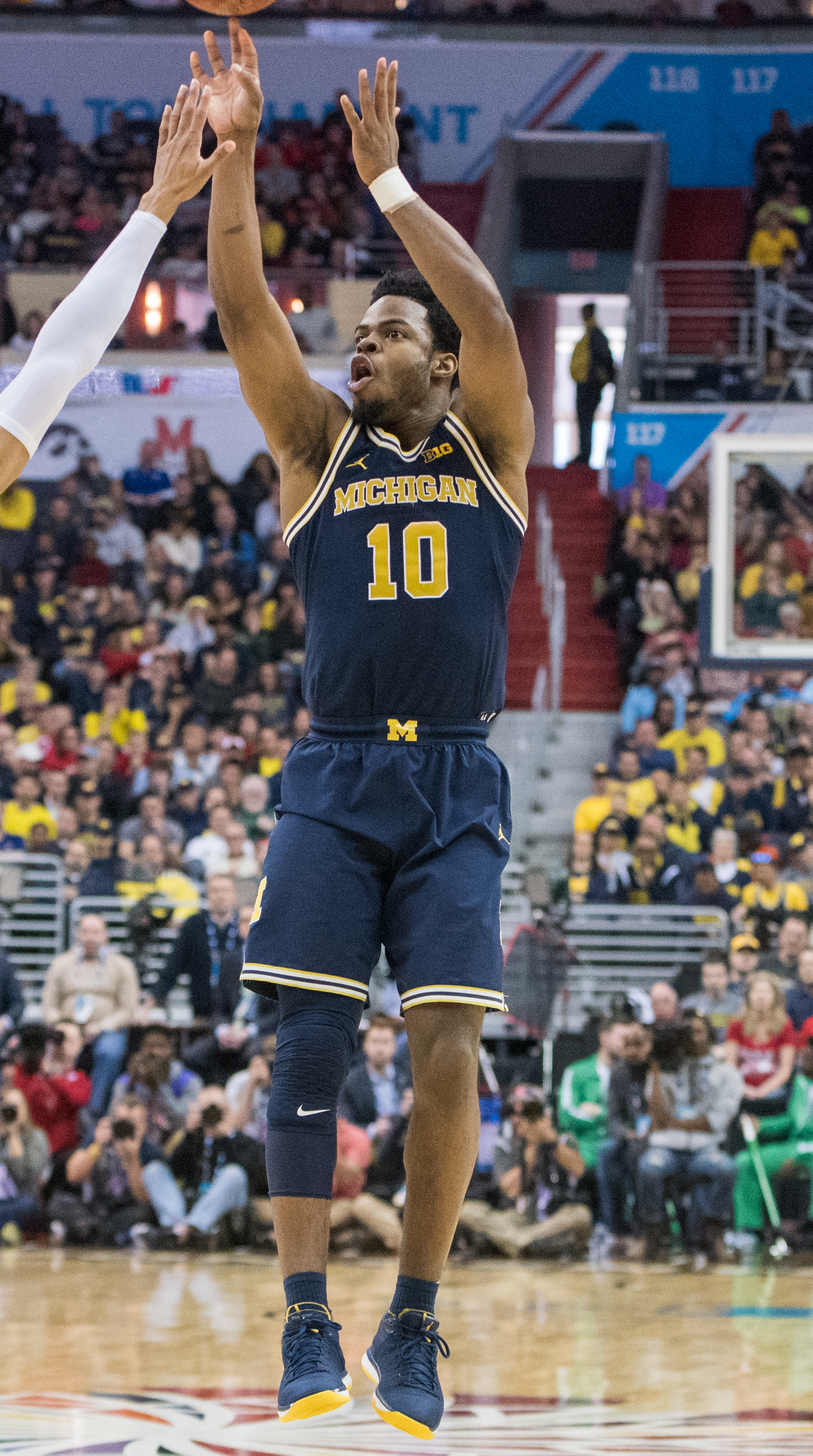 Derrick Walton of Michigan